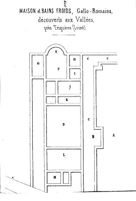 Plan of part of a gallo-roman villa and its therms found in the lieudit les Schéma d'une partie des ruines de villa gallo-romaine et de ses thermes, trouvée au lieudit Les Vallées, Triguères, Loiret, France. This wing of the villa alone measures 50 x 20 m. The rest of the villa is buried under the road.